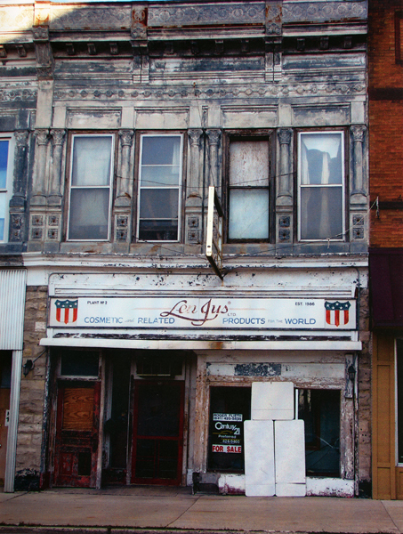 The Len Jus Building, Mason City, Iowa. Note rare sheet metal facade.